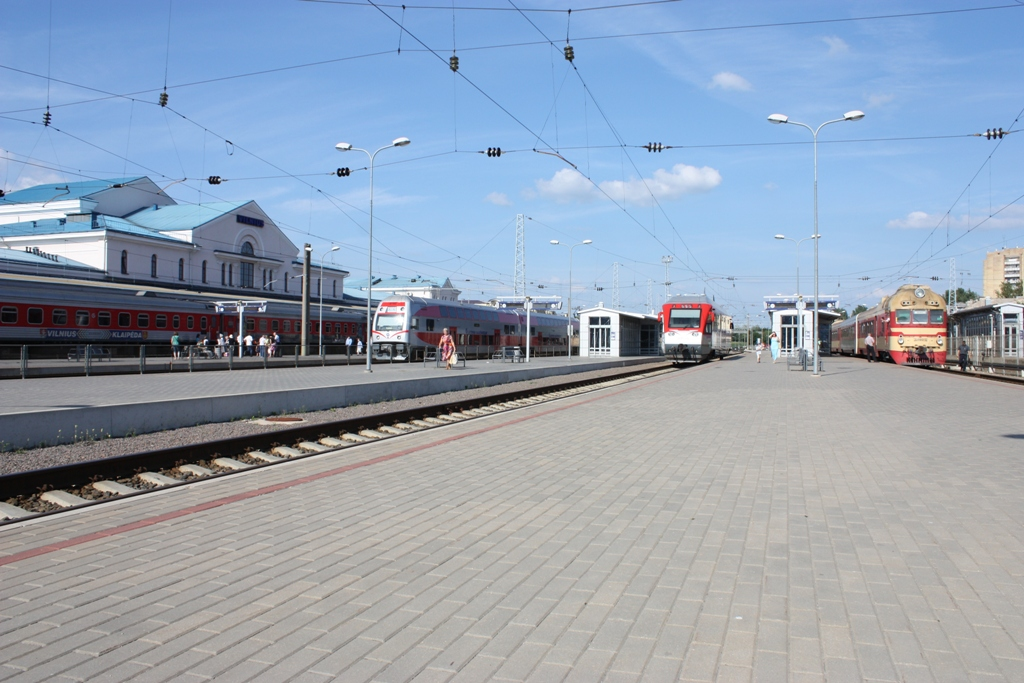 Vilnius railway station, Lithuania.